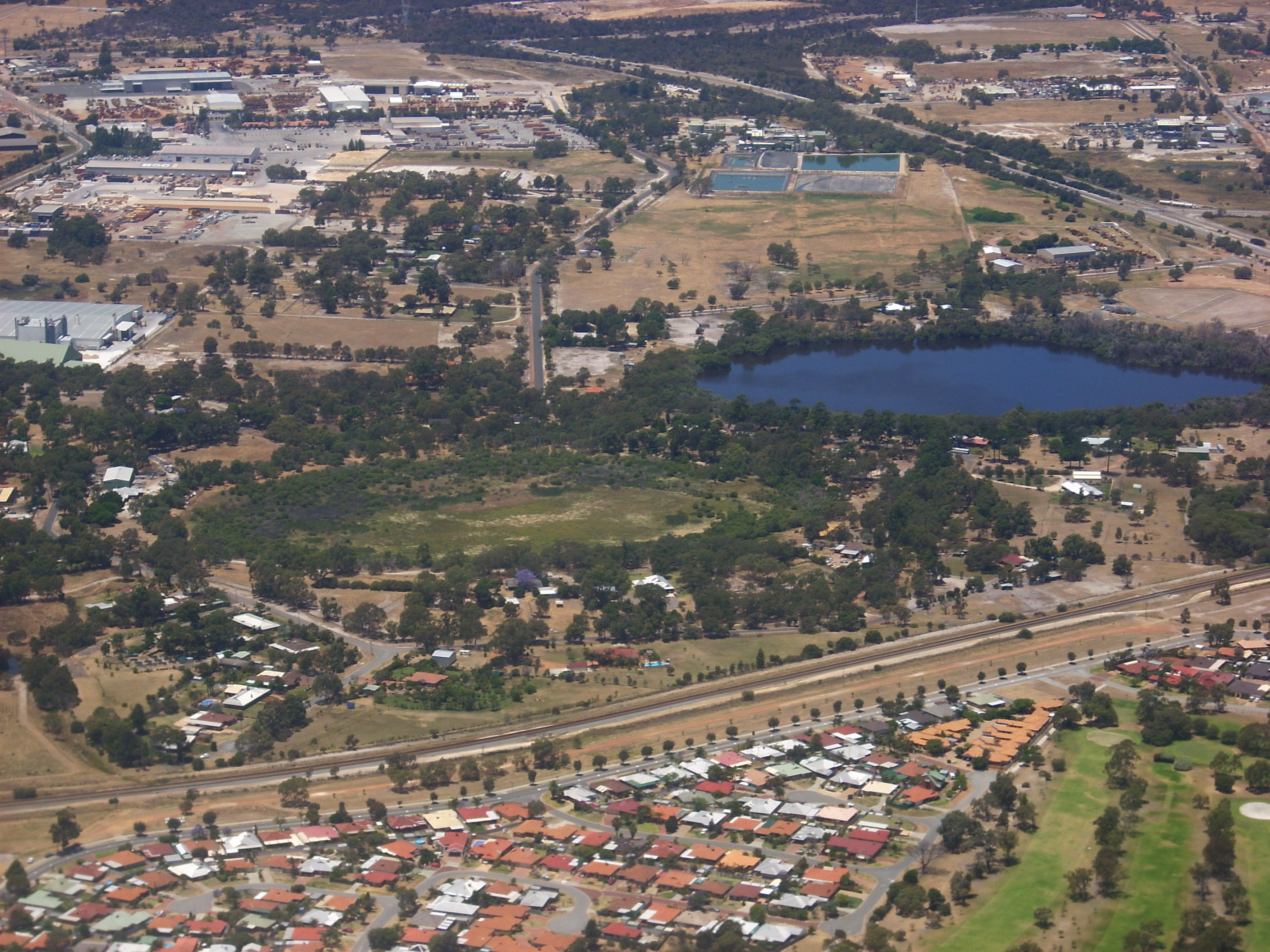 Hazelmere, Western Australia from the air